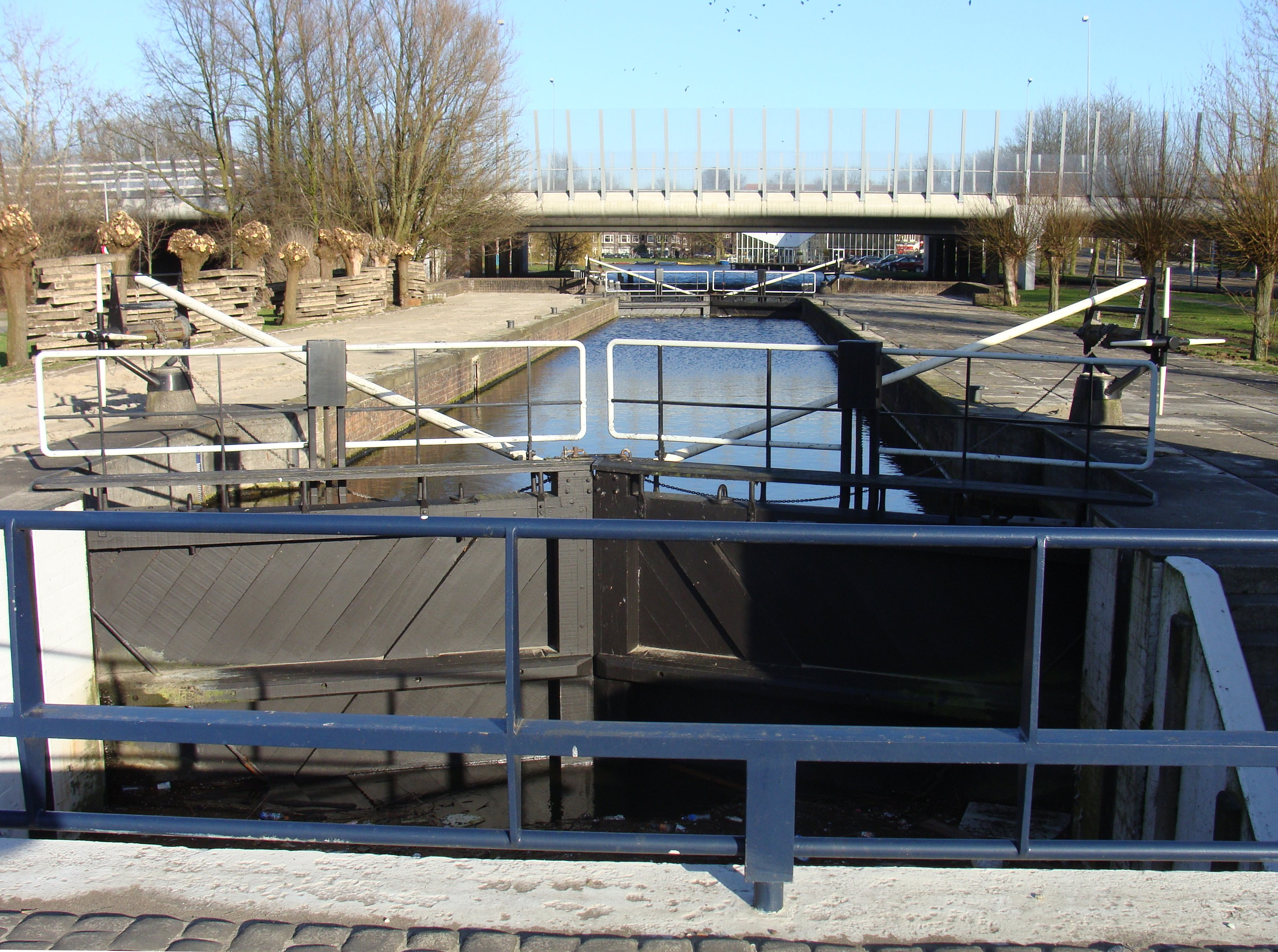 The Westlandgrachtschutsluis (canal locks) between the Slotervaart (canal) and the Westlandgracht (canal) in Amsterdam, the Netherlands, looking towards the latter.